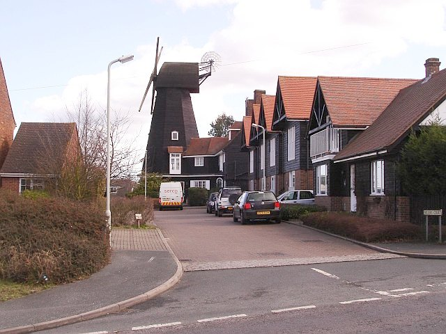 Photograph of the Black Mill, Whitstable